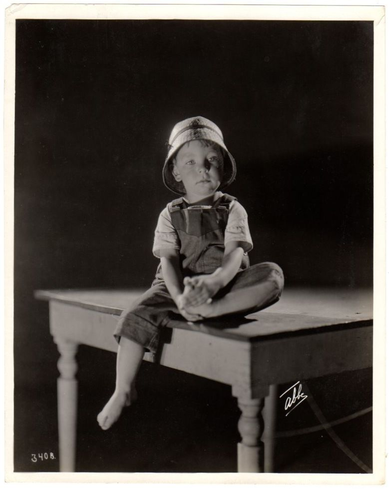 Don Marion Davis sometimes credited as John Henry JR. in the 1920s